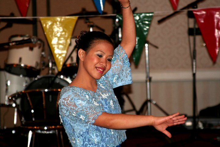 Traditional dance of the Philippines.